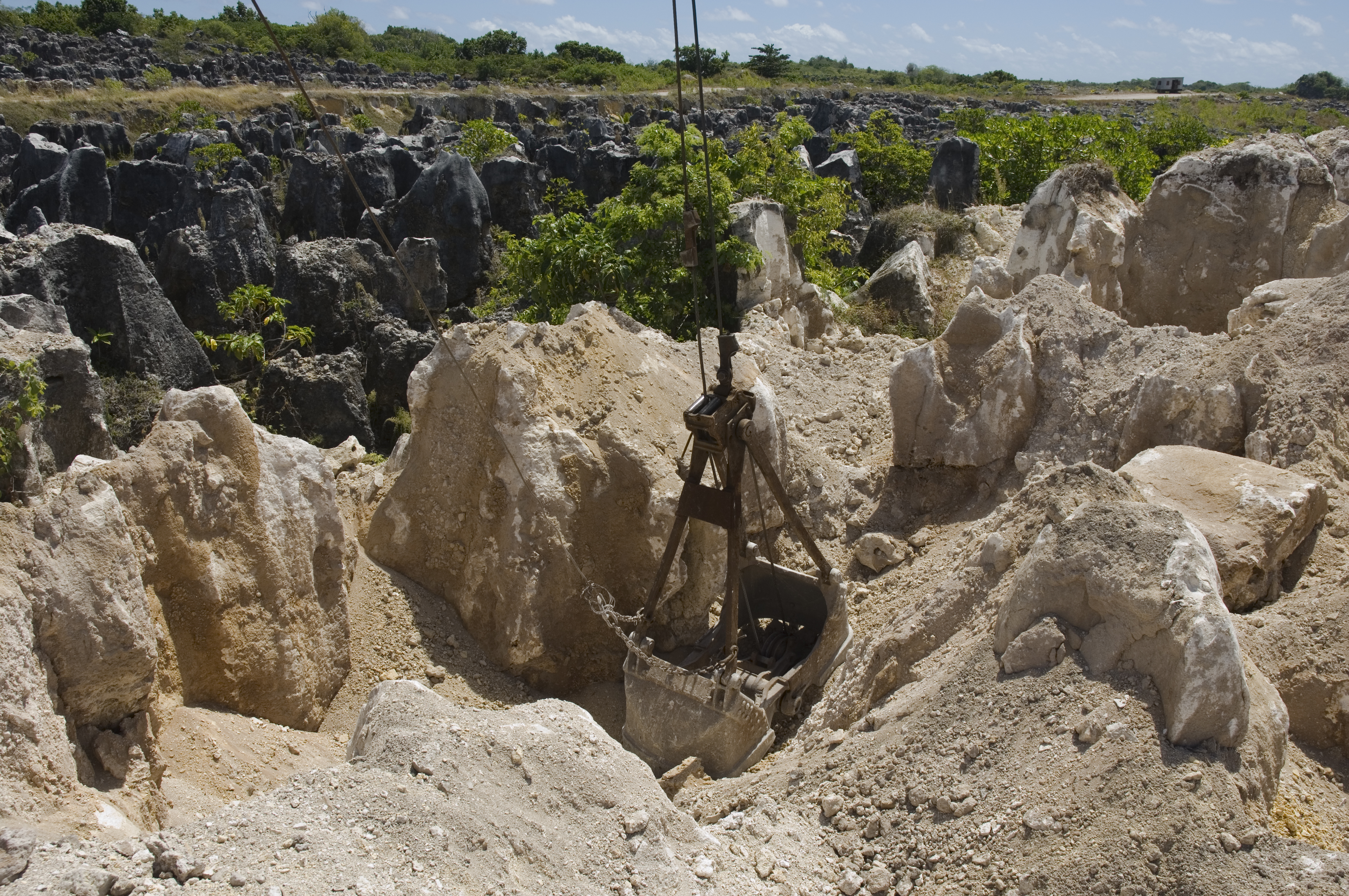 The site of secondary mining of Phosphate rock in Nauru, 2007.